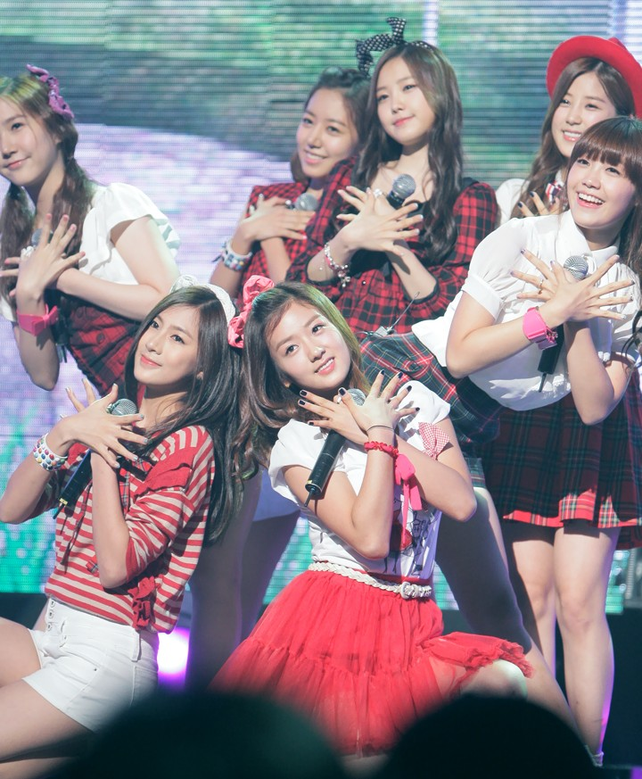 A Pink at the GSL Season 5 Code S Final Performance, 10 September 2011. Left to right: Yookyung, Namjoo, Naeun, Chorong and Eunji; Hayoung and Bomi.